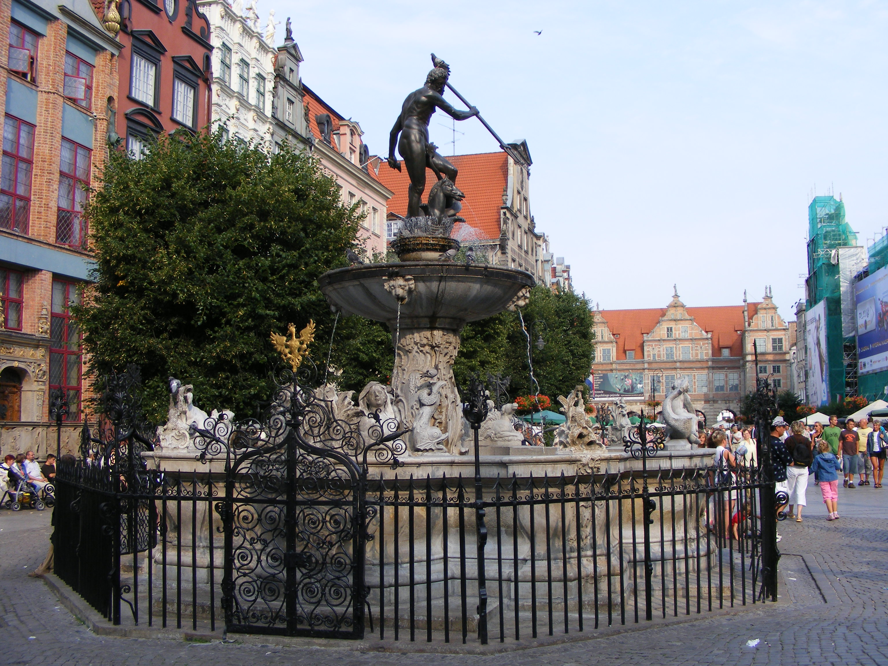 Poseidon fountain in Gdańsk, Poland. View from the Długa Street